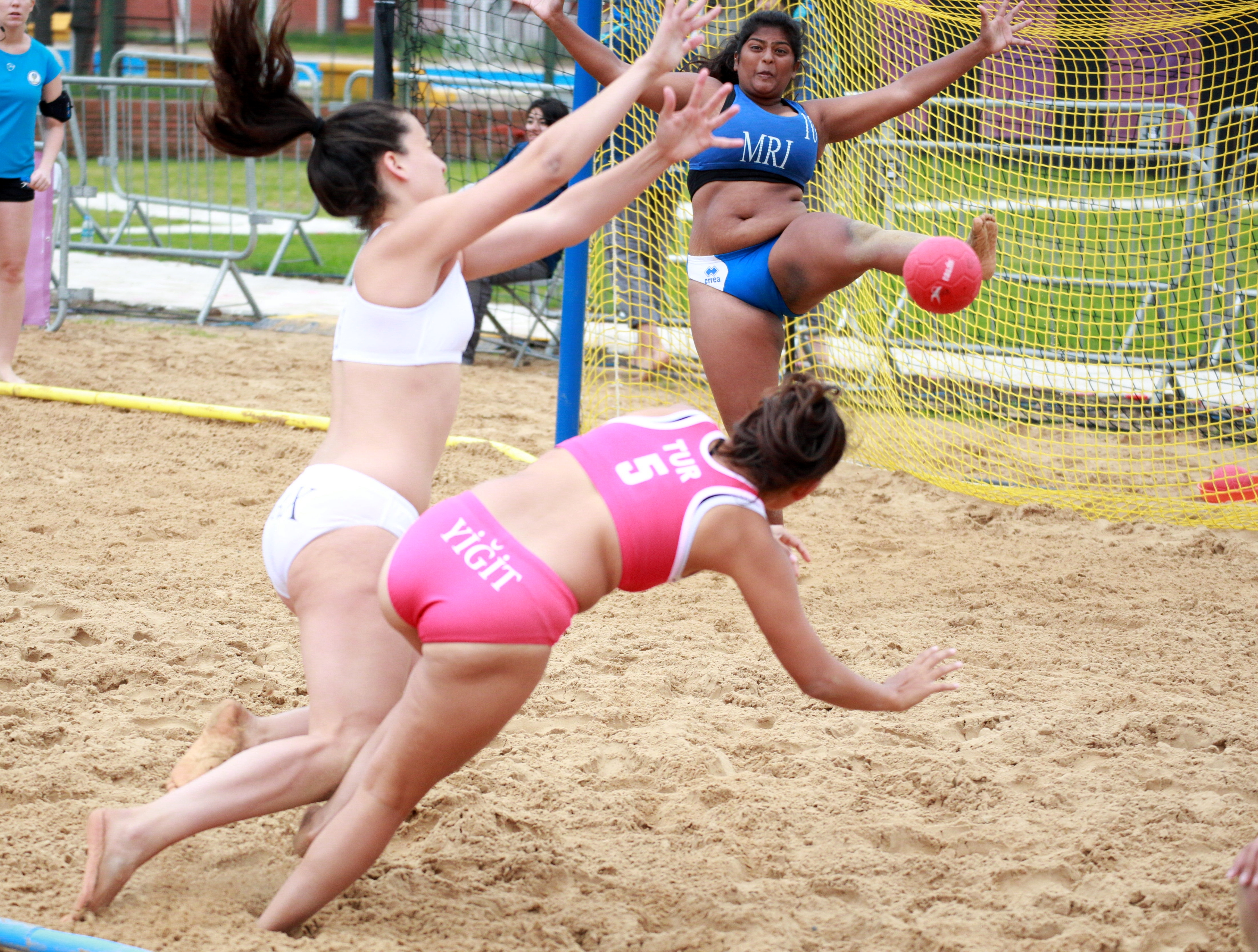 Beach handball at the 2018 Summer Youth Olympics at 12 October 2018 – Girls Consolation Round – Mauritius-Turkey 0:2